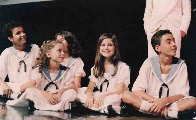 Photo taken in the Commerce Theater in Savador Bahia of play "The Sound of Music"